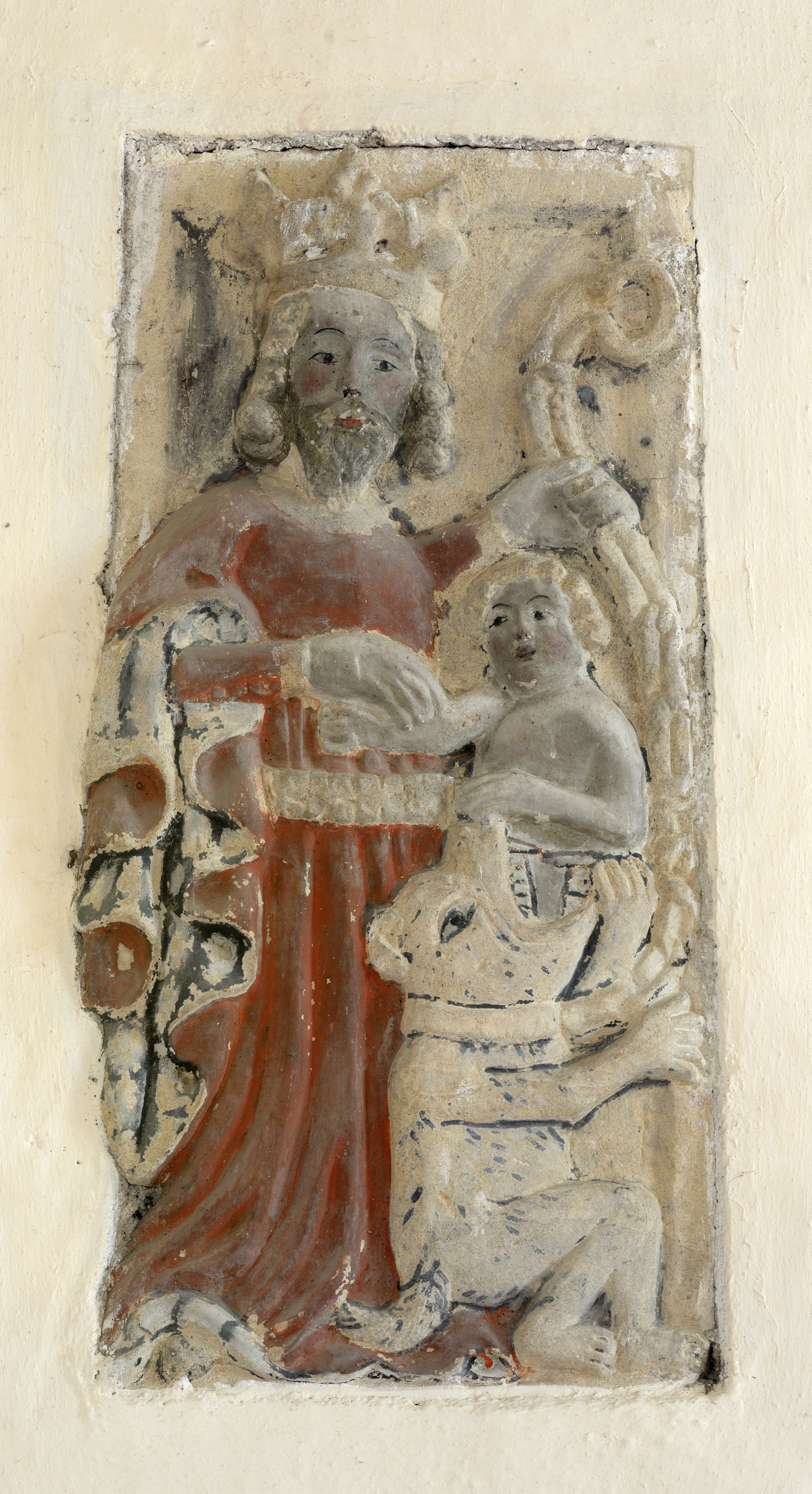 A sandstone relief (15th century) depicting a bishop (probably Saint Simpert of Augsburg) saving a child from a wolf's throat in the Saint Constantine church in Völs am Schlern, South Tyrol.